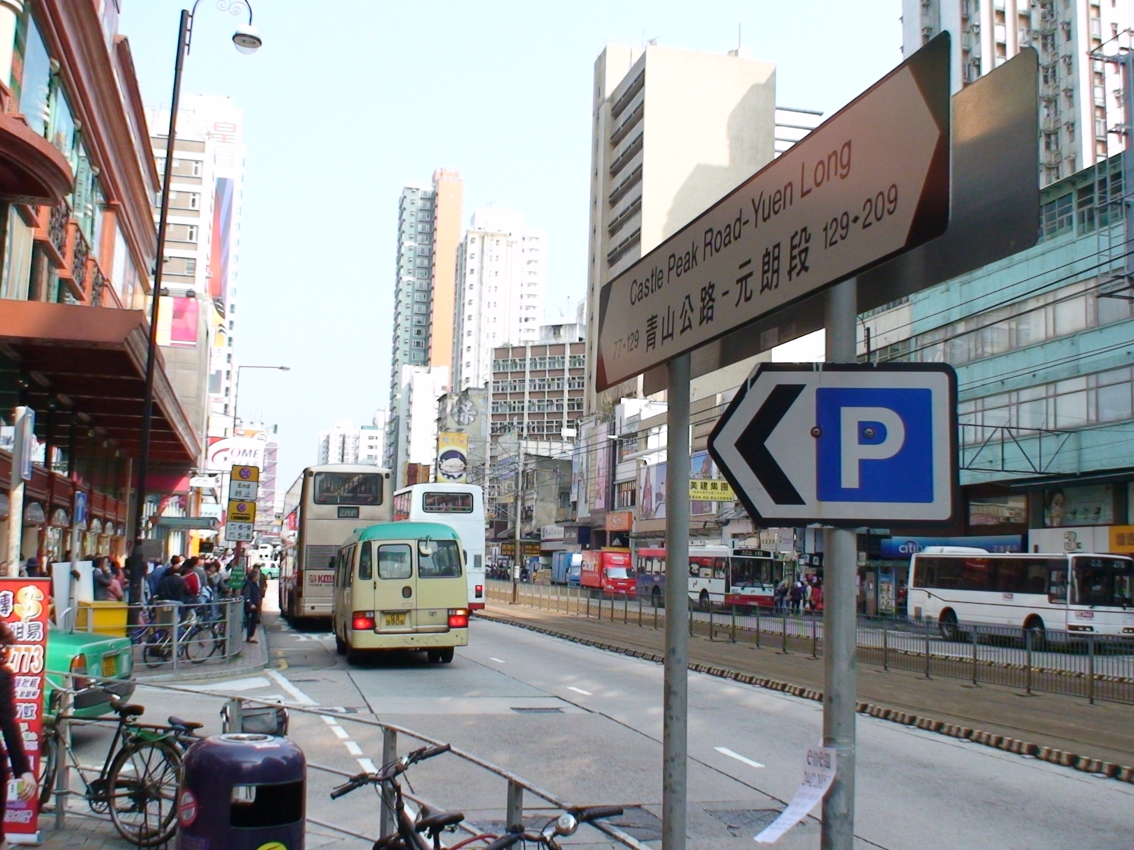 Castle Peak Road - Yuen Long (元朗大馬路) is the main road in Yuen Long, Hong Kong.